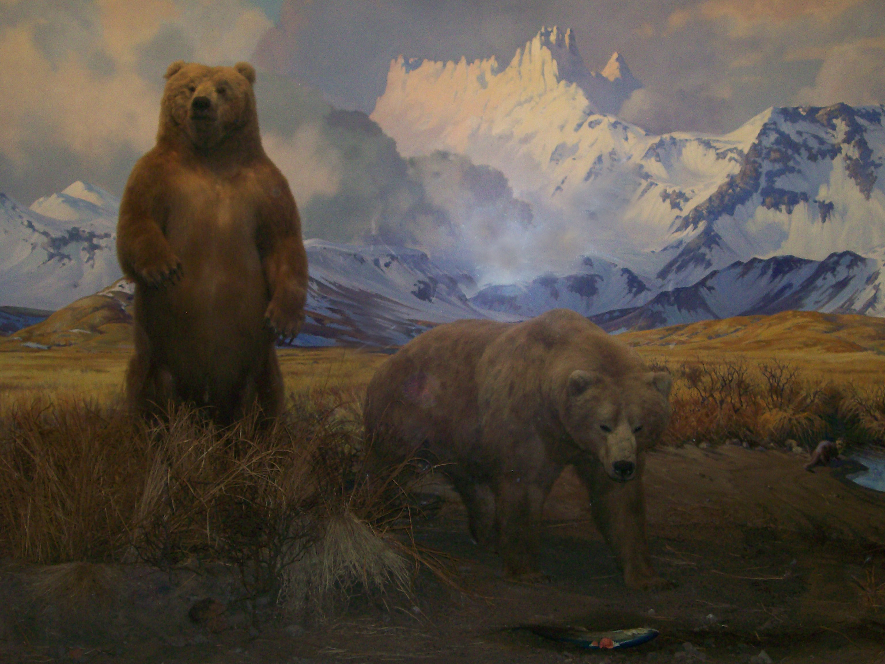 Diorama at the American Museum of Natural History.